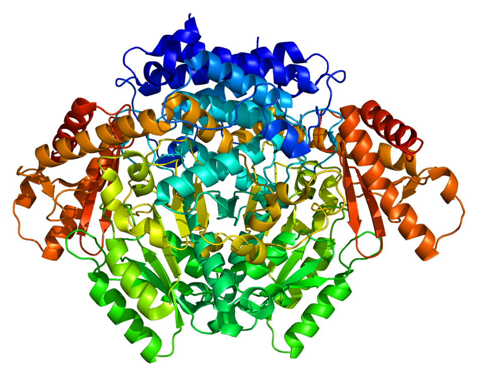 Structure of the GAD1 protein. Based on PyMOL rendering of PDB 2okj.